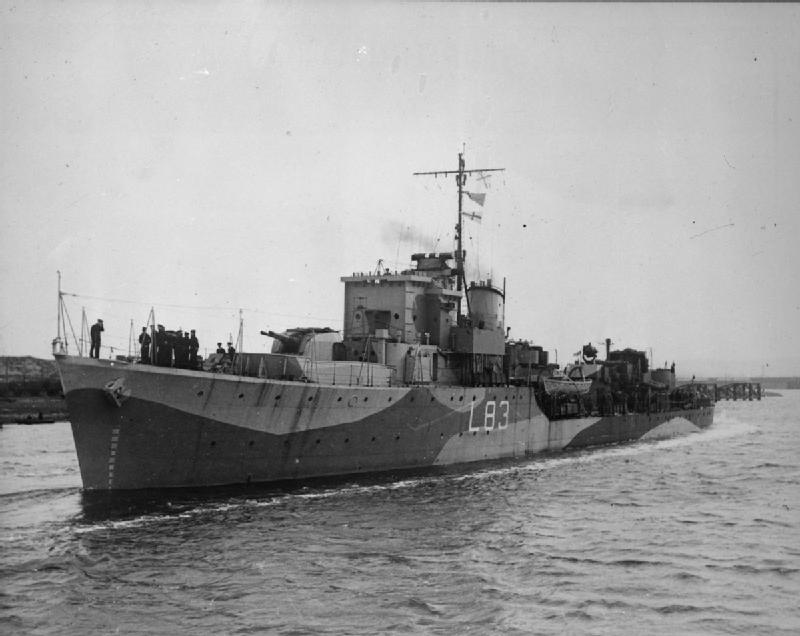 HMS Derwent Underway.